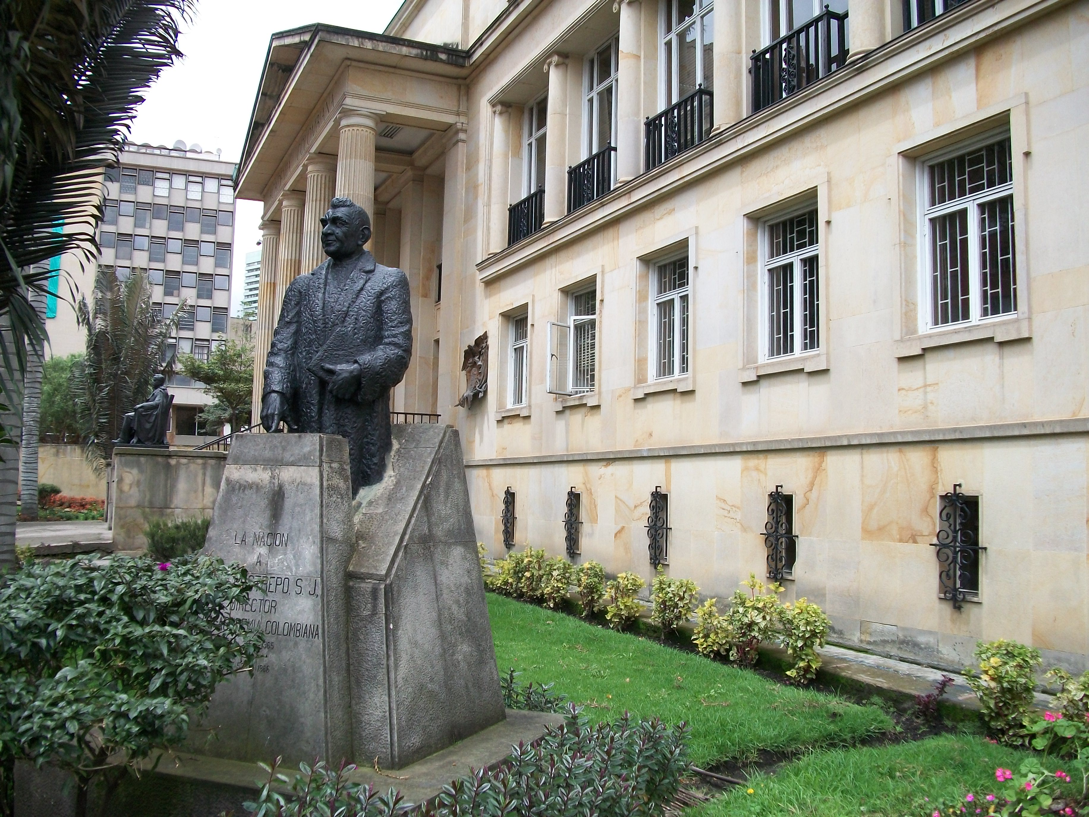 Félix Restrepo ; Academia Colombiana de la Lengua, costado suroccidental.